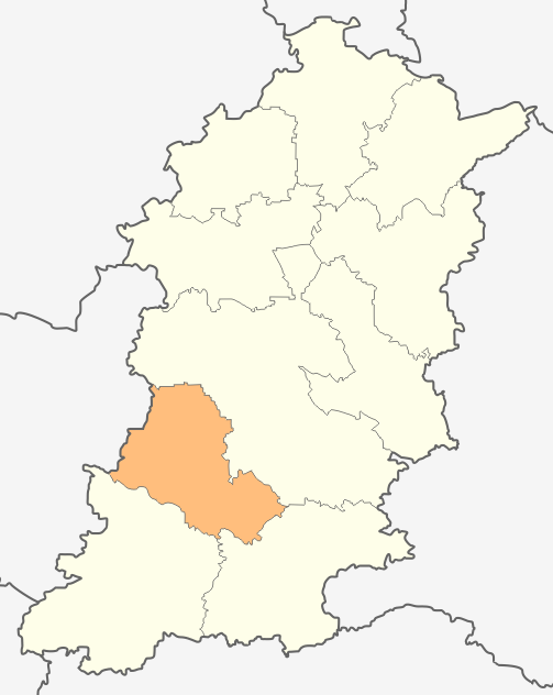 Map of Veliki Preslav municipality, Shumen Province